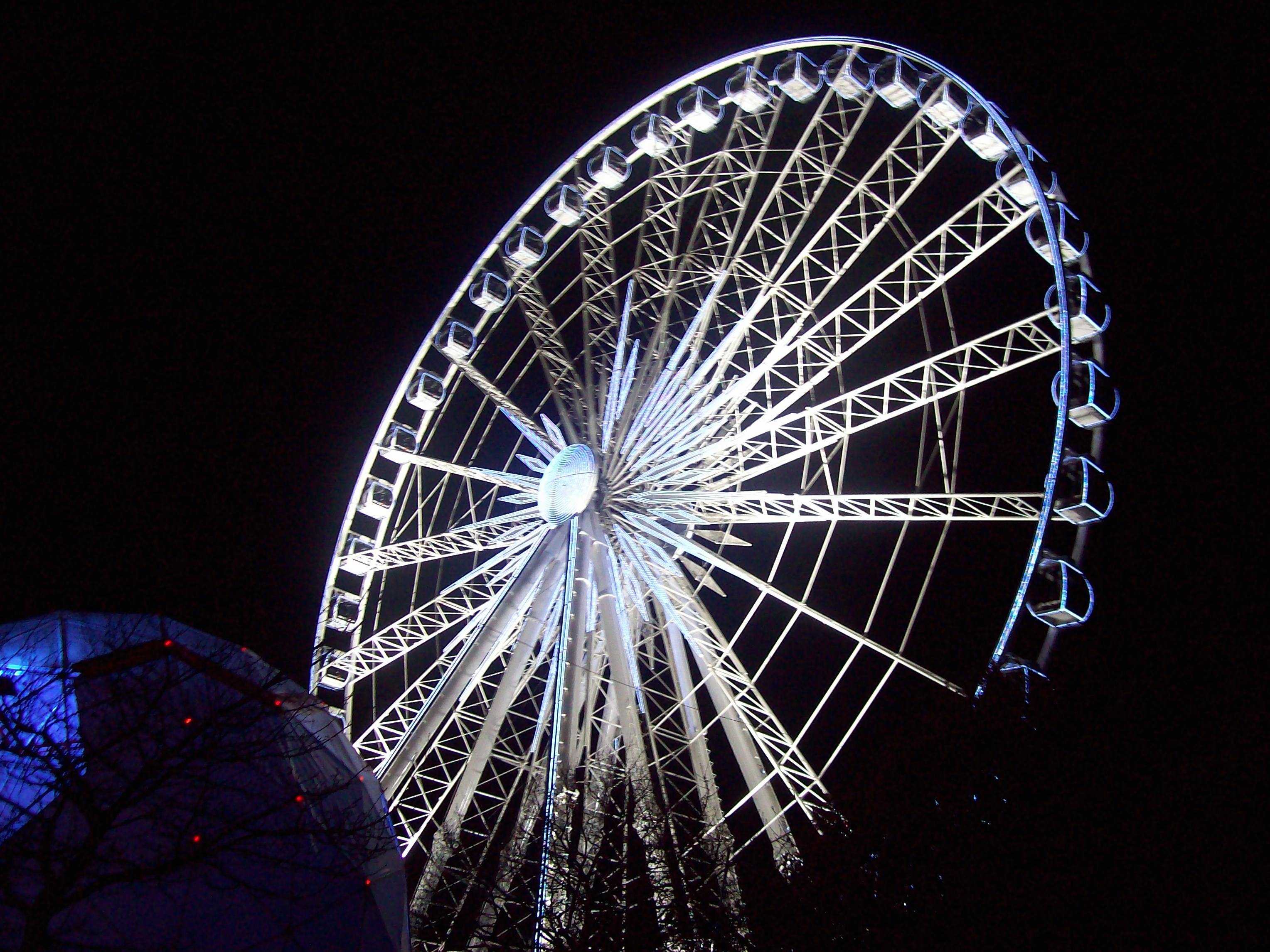 Picture of the Ferris Wheel at the Hyde Park Christmas Market